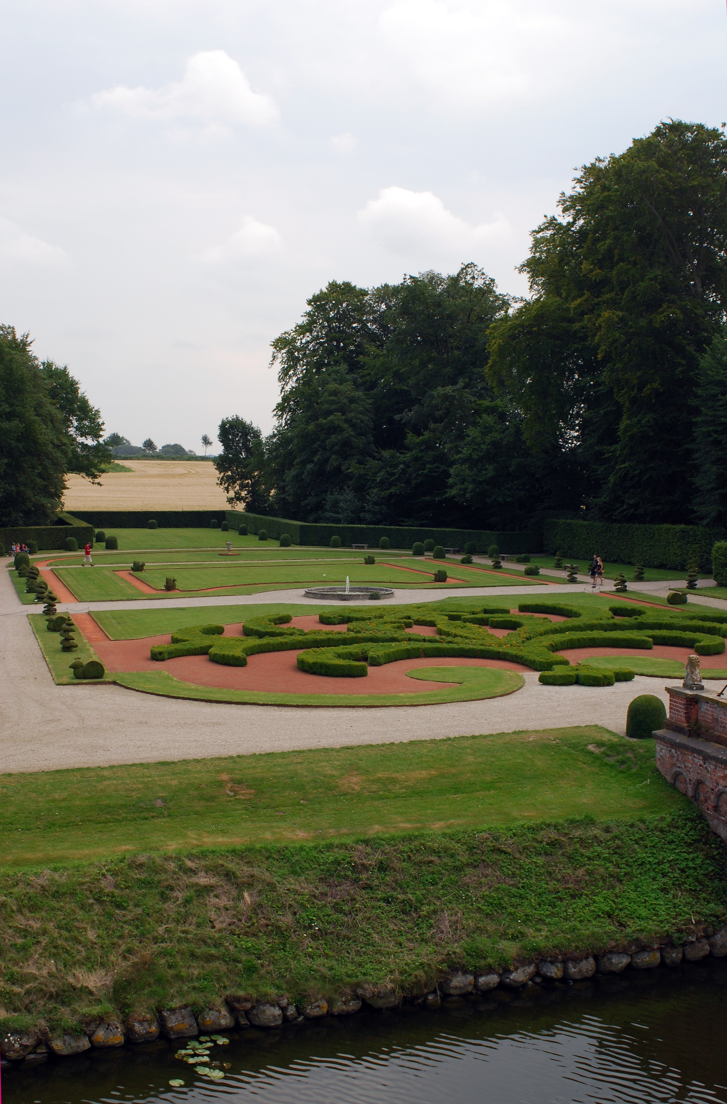 The Renaissance Garden in Egeskov from the Tower Room of Egeskov Castle